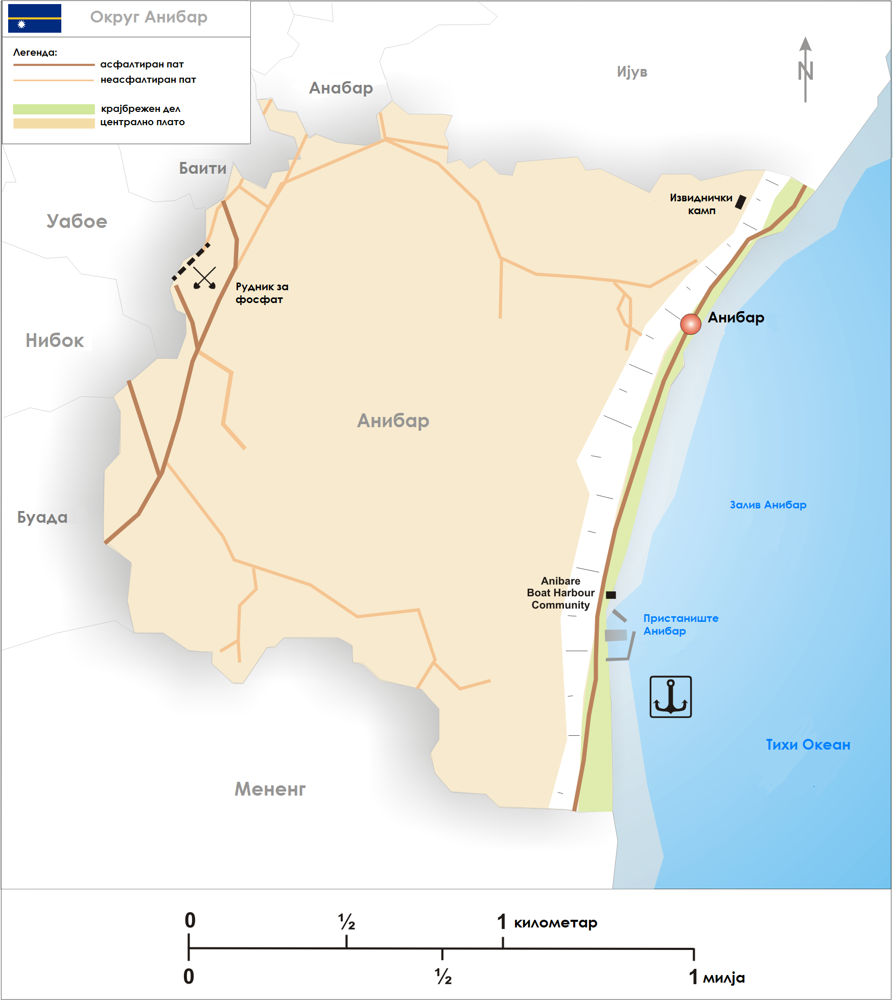 Map of Anibare District in Nauru on Macedonian.